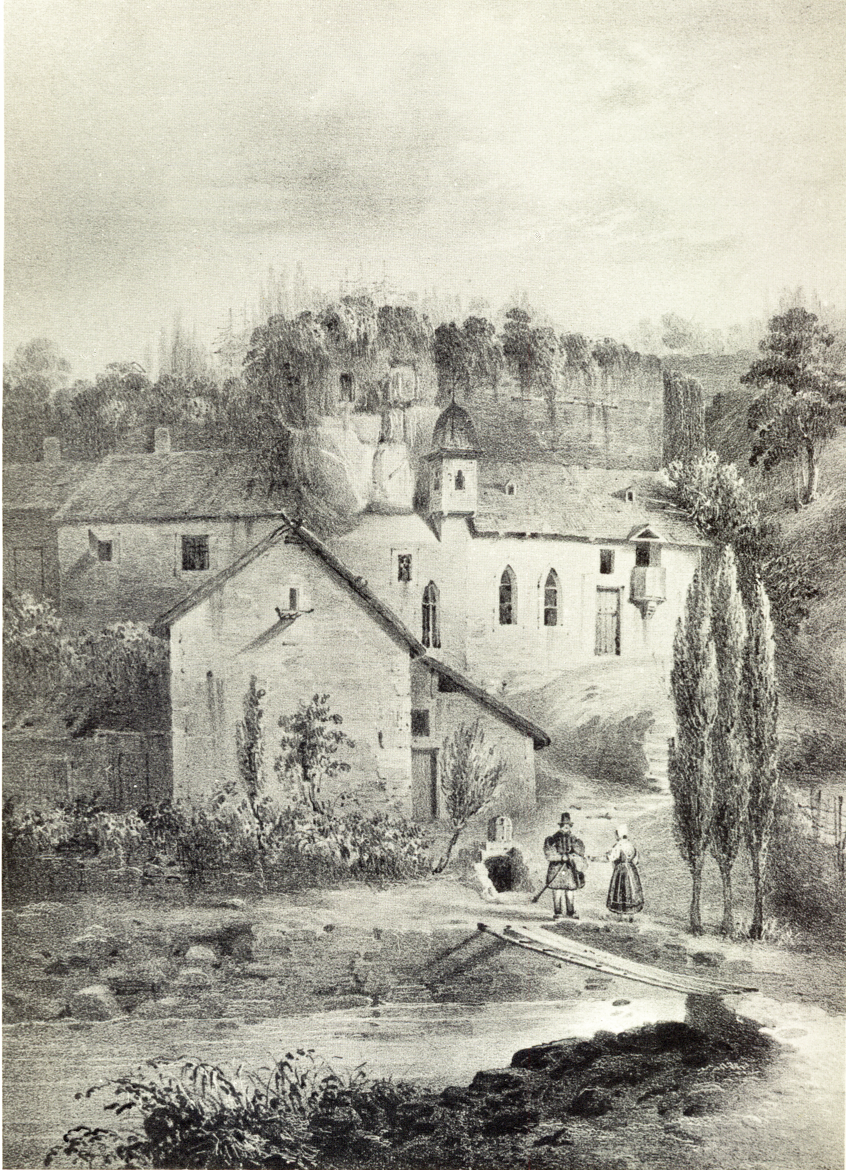 Saint Quirinus' chapel, Luxembourg. Drawing.